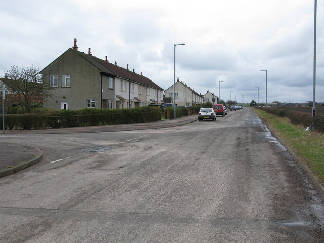 Entering Netherburn from the East